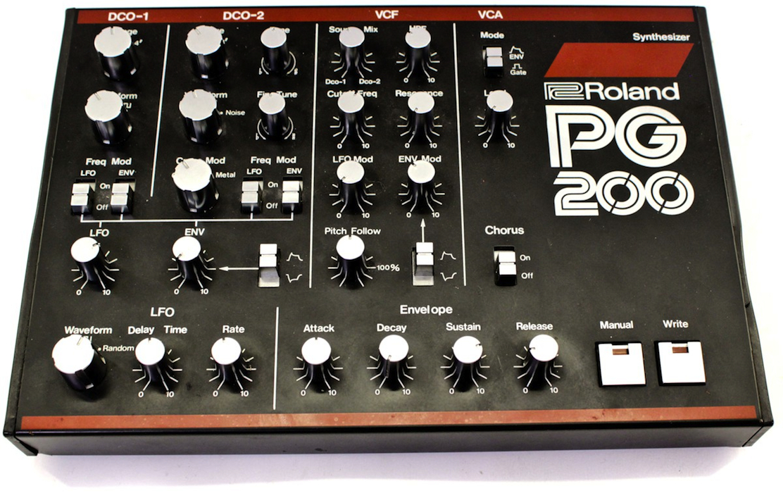 Roland PG-200 programmer board